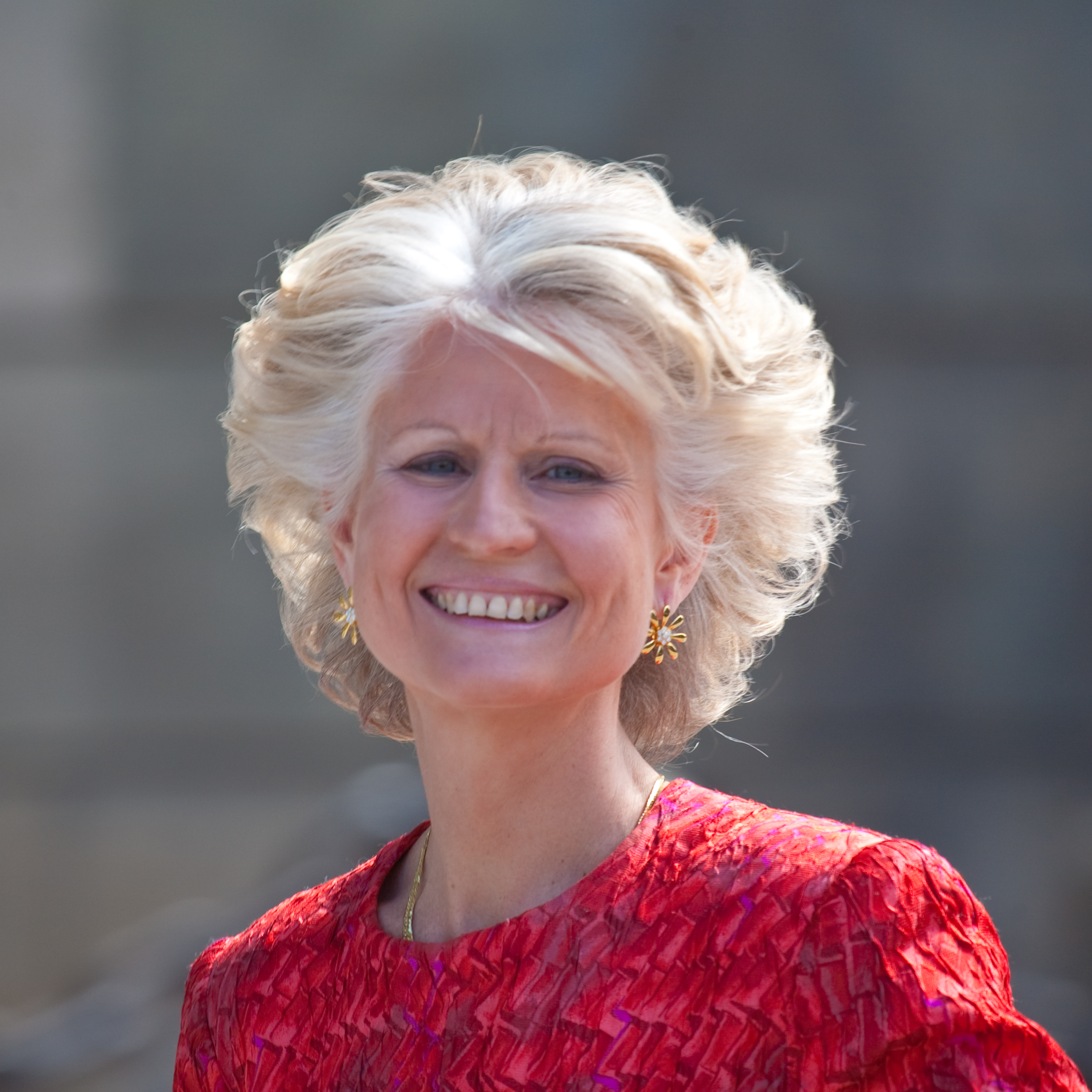 Anna Maria Corazza Bildt at Princess Estelle Silvia Ewa Mary´s baptism in Stockholm, Sweden, May 2012